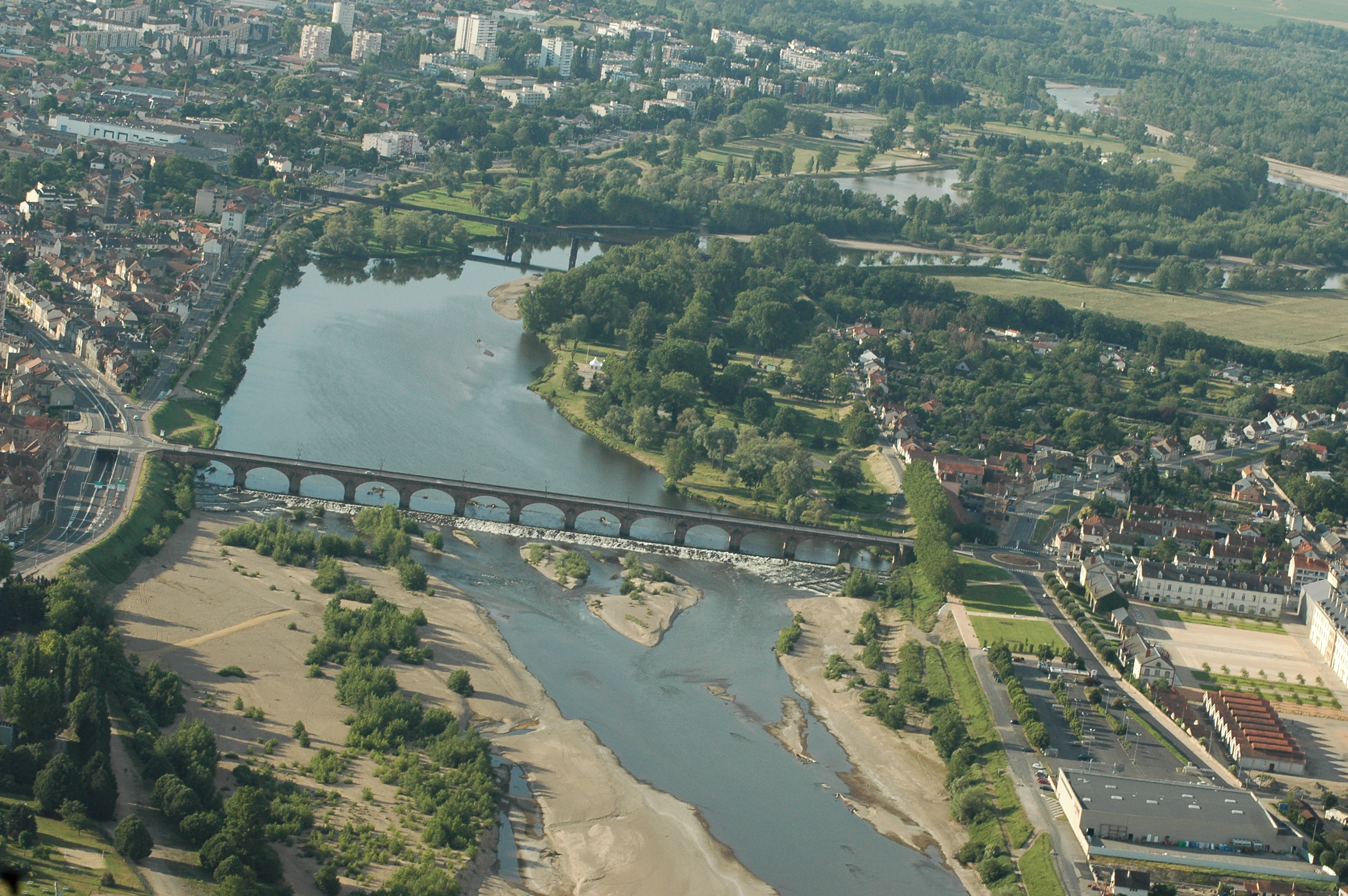 The Régémortes Bridge over the Allier in Moulins, France